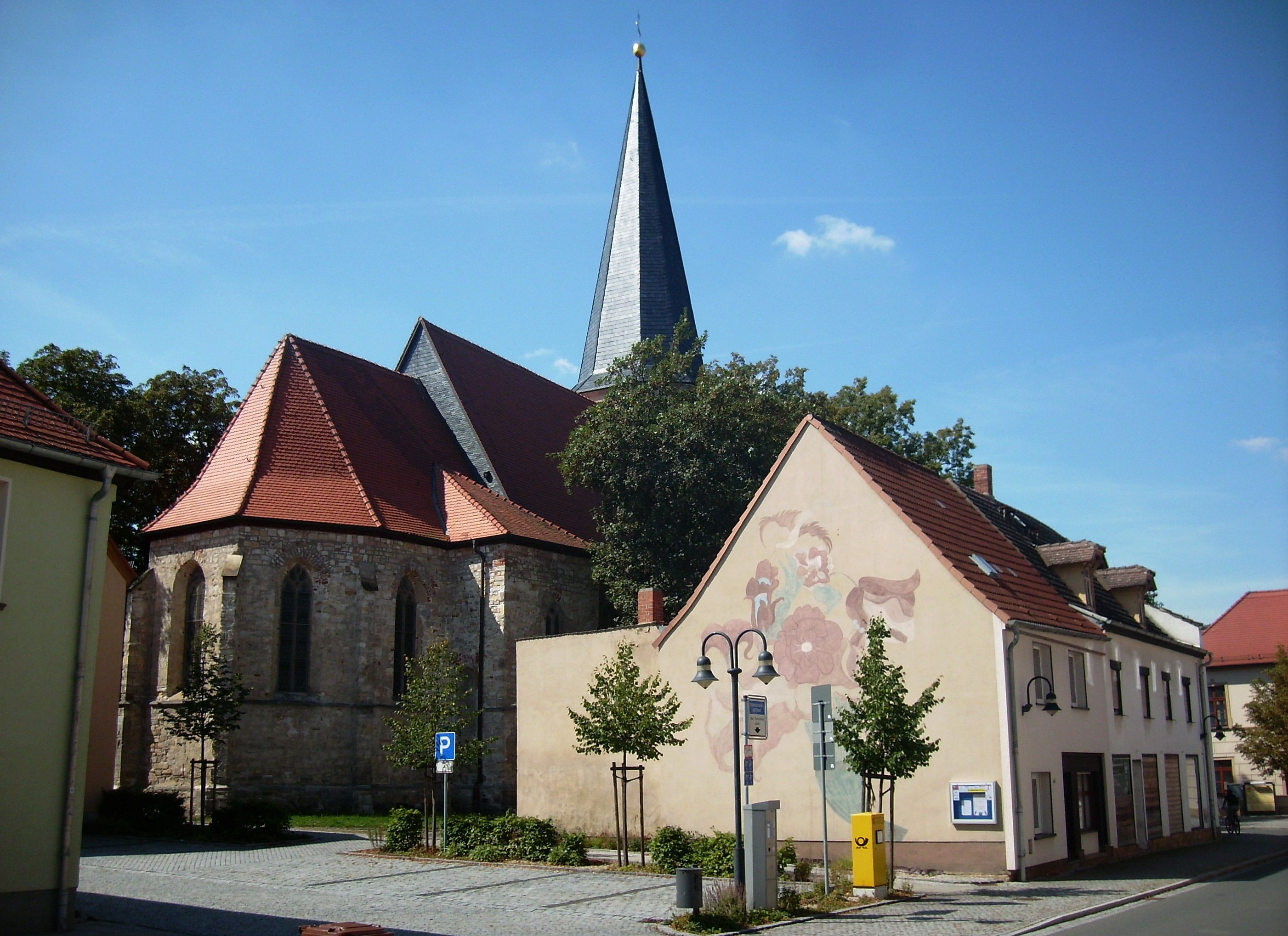 Lutheran St. Peter Church, Hohenmölsen (district of Burgenlandkreis, Saxony-Anhalt)